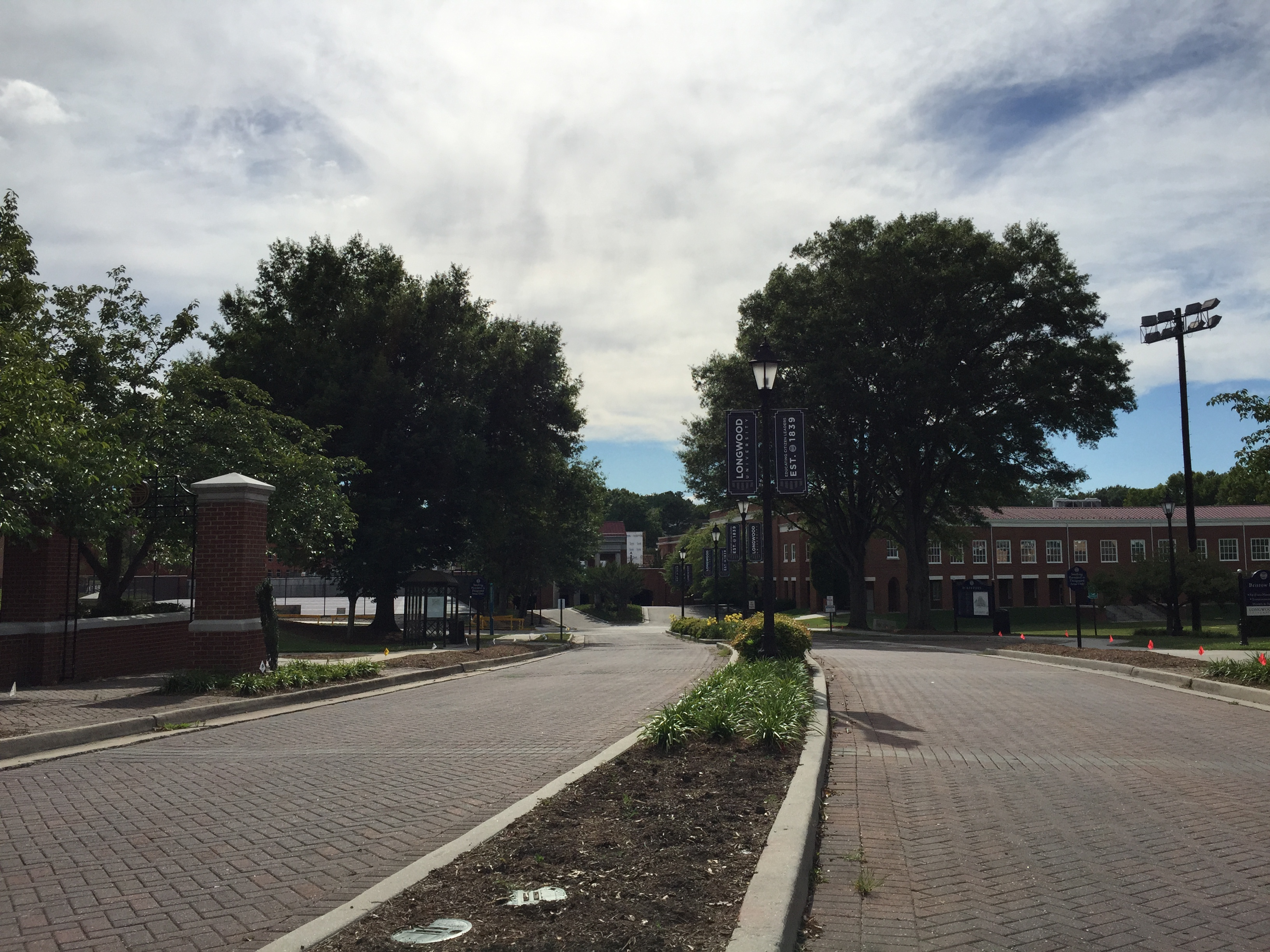 View west along Virginia State Route 328 (Redford Street) at U.S. Route 15 Business (Main Street) at Longwood University in Farmville, Prince Edward County, Virginia